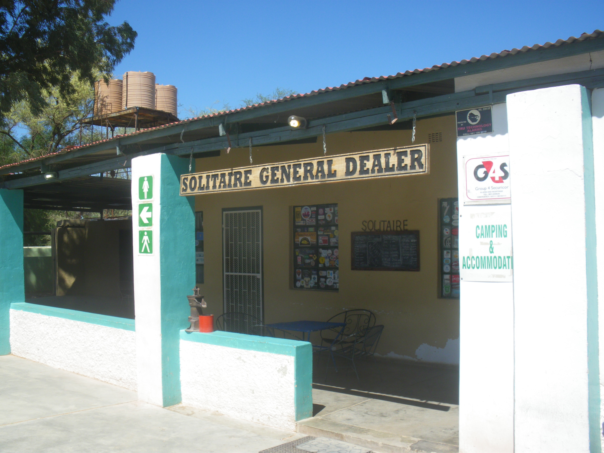 Solitaire, Namibia, town of Namibia.